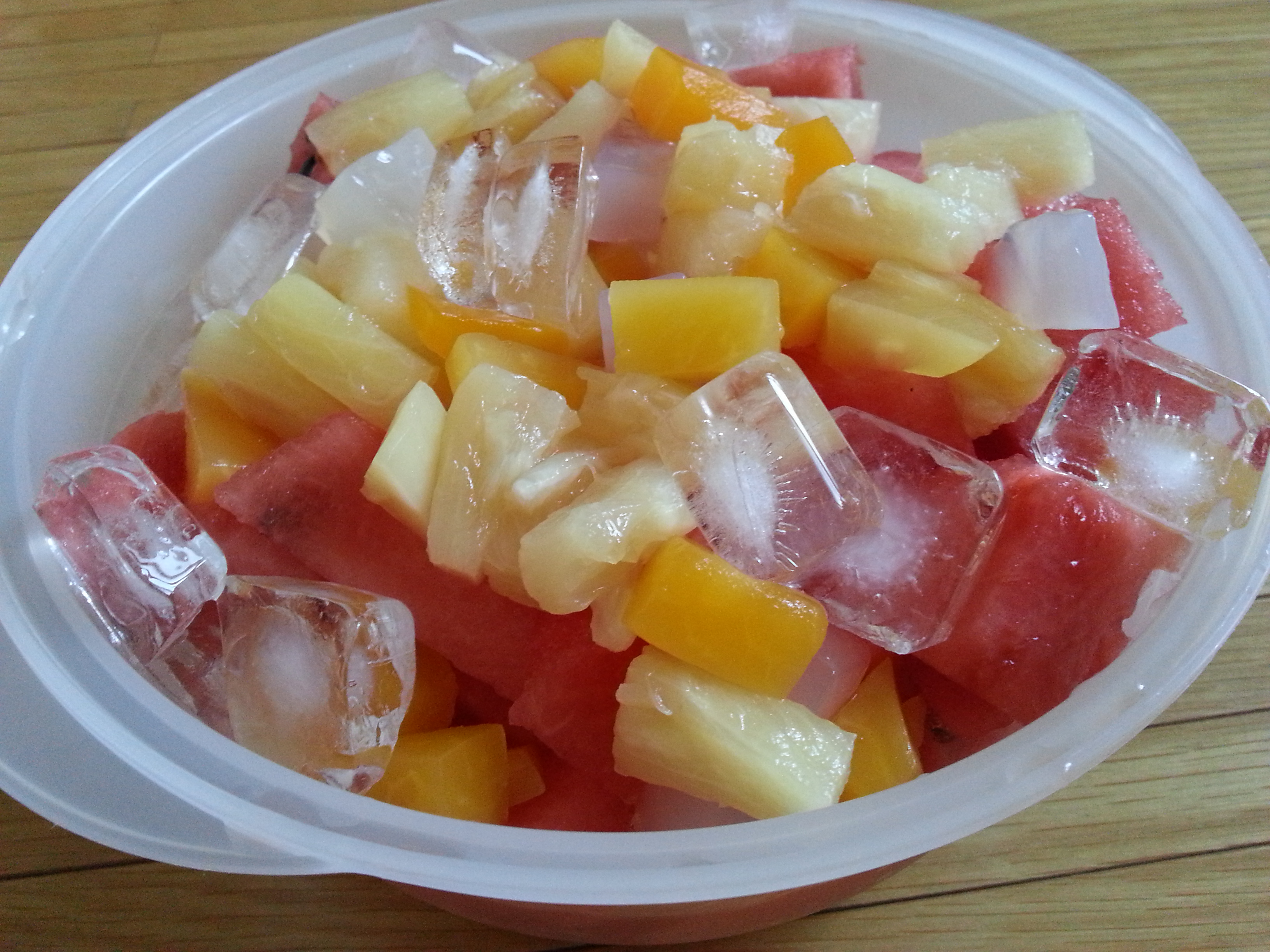 Subak hwachae, made with watermelon